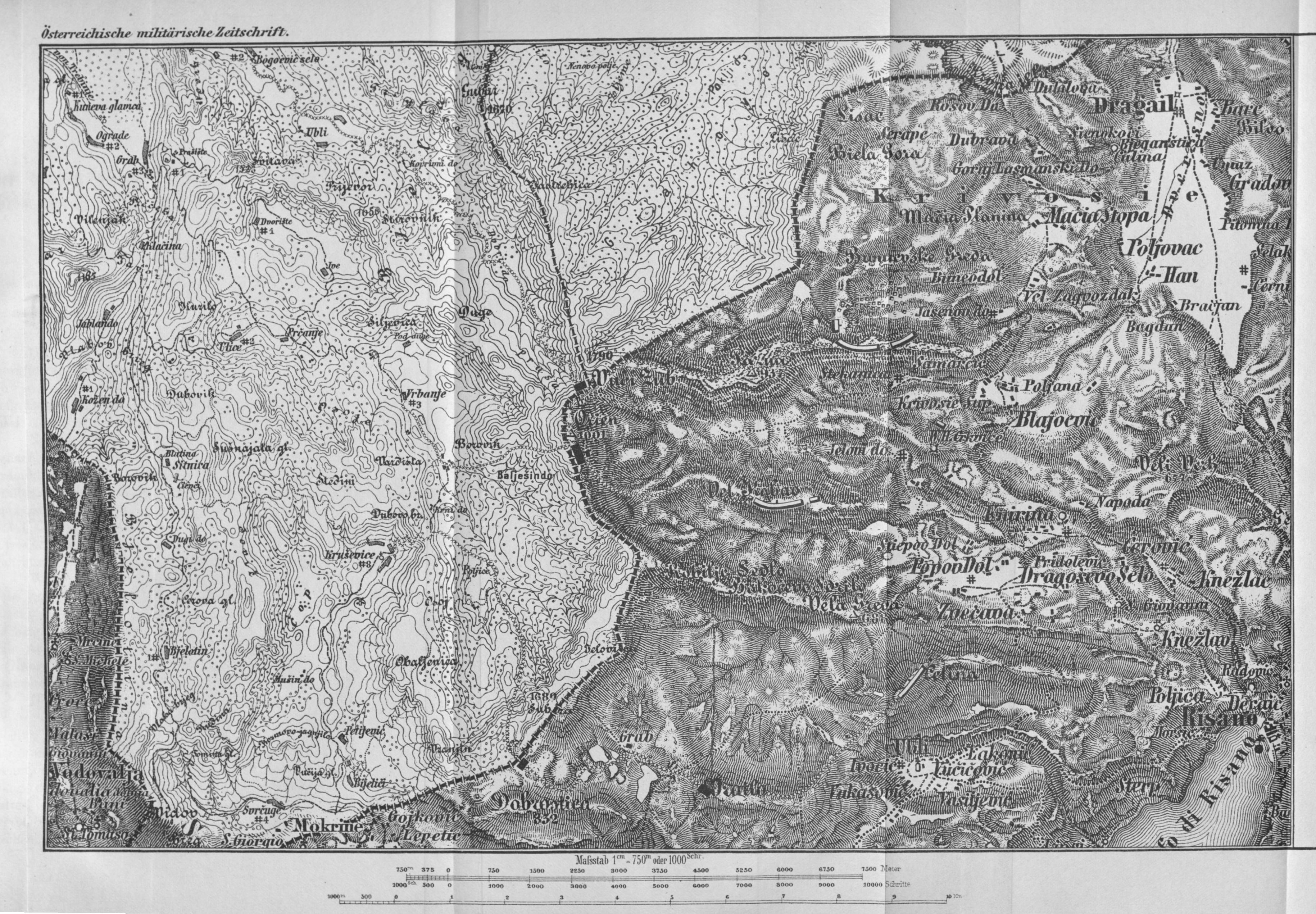 Orjen map of insurrgent war 1882 from the k.k. Austrian Military Journal 1883